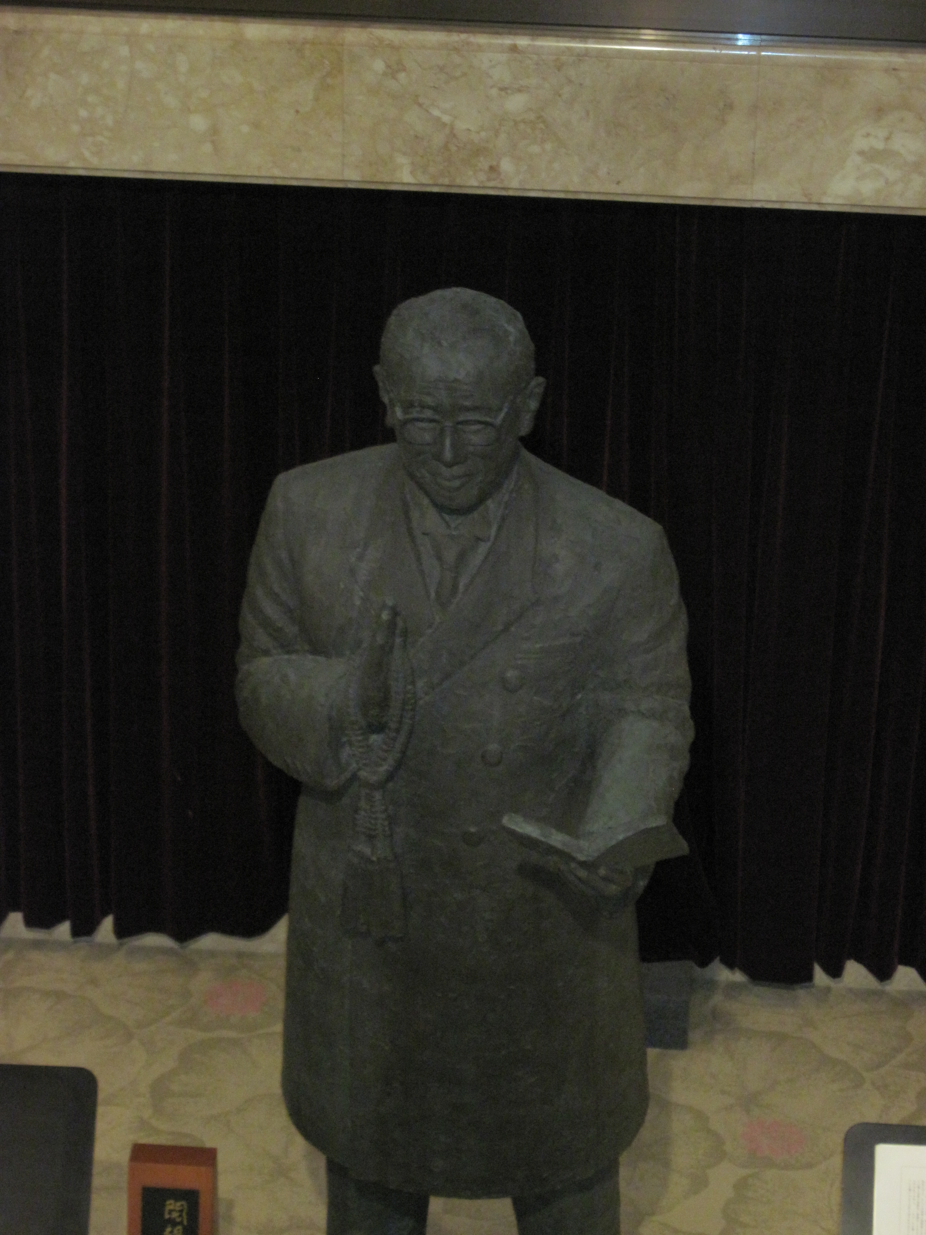 Photo of a statue of Nikkyo Niwano located in the 2nd Pilgrimage Hall at Rissho Kosei-kai Headquarters.